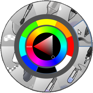 Krita's right-click palette, in version 2.8